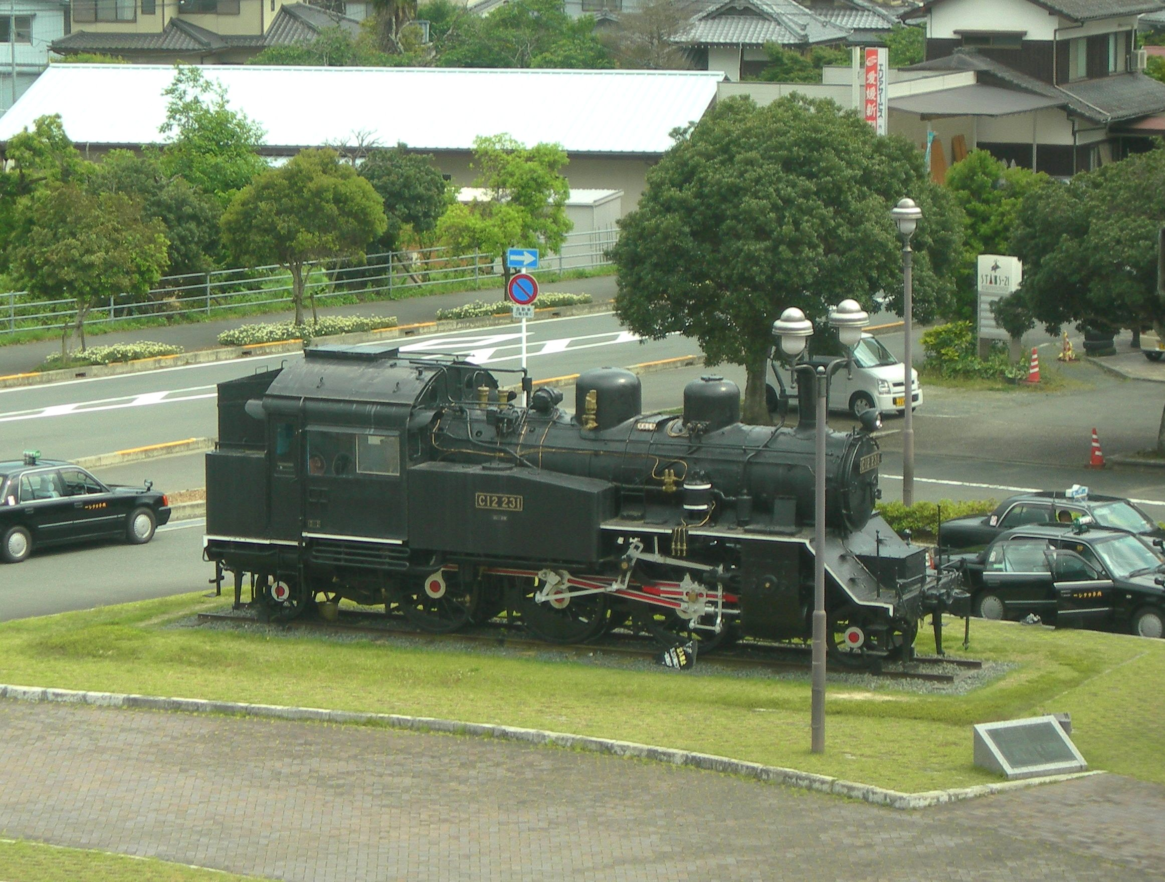 Preserved JNR Class C12 steam locomotive C12 231 in front of Uchiko Station in Ehime Prefecture, Japan